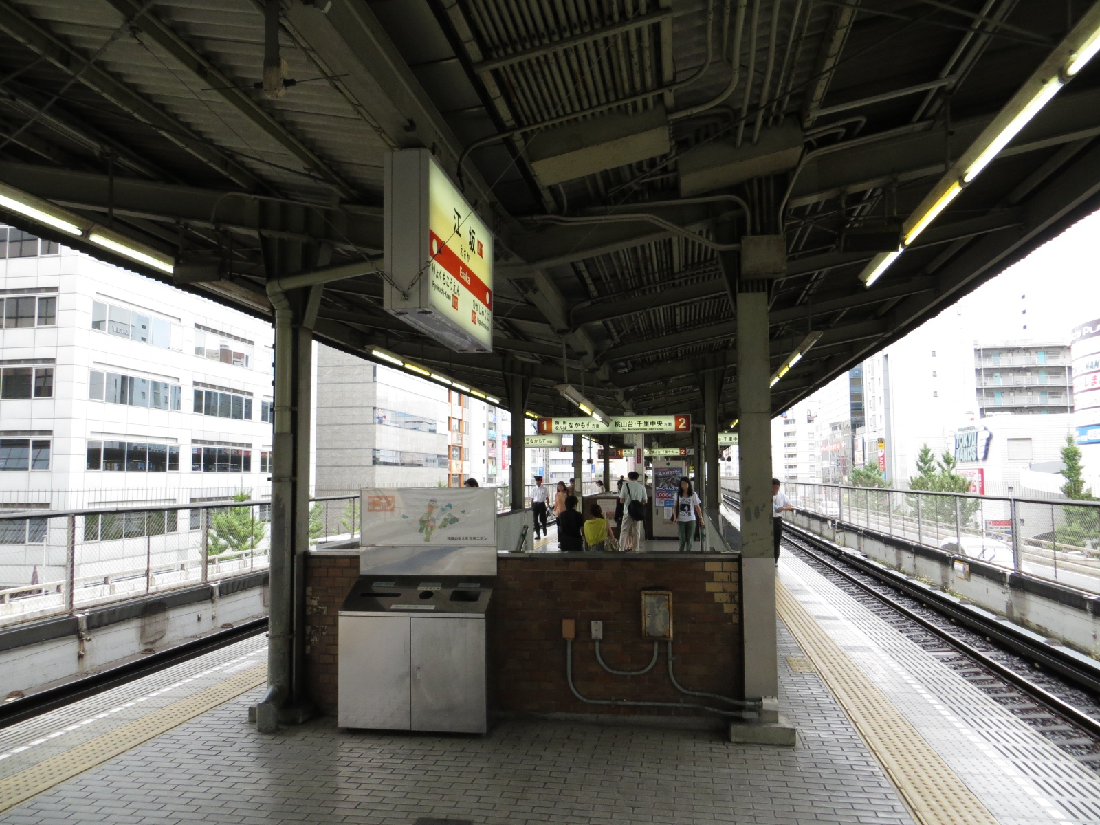 Platform from Esaka Station (M11). Suita, Osaka.